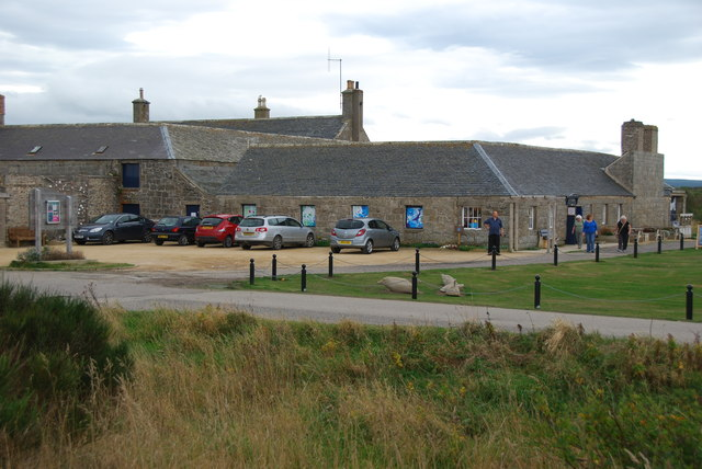 Dolphin and Wildlife Centre